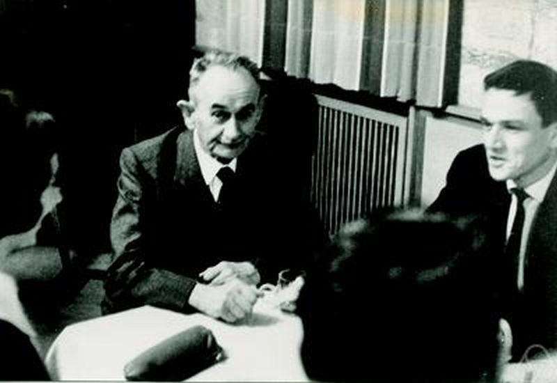 Karl Heinrich Hofmann (right), Lothar Koschmieder, 1961